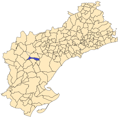 Benissanet